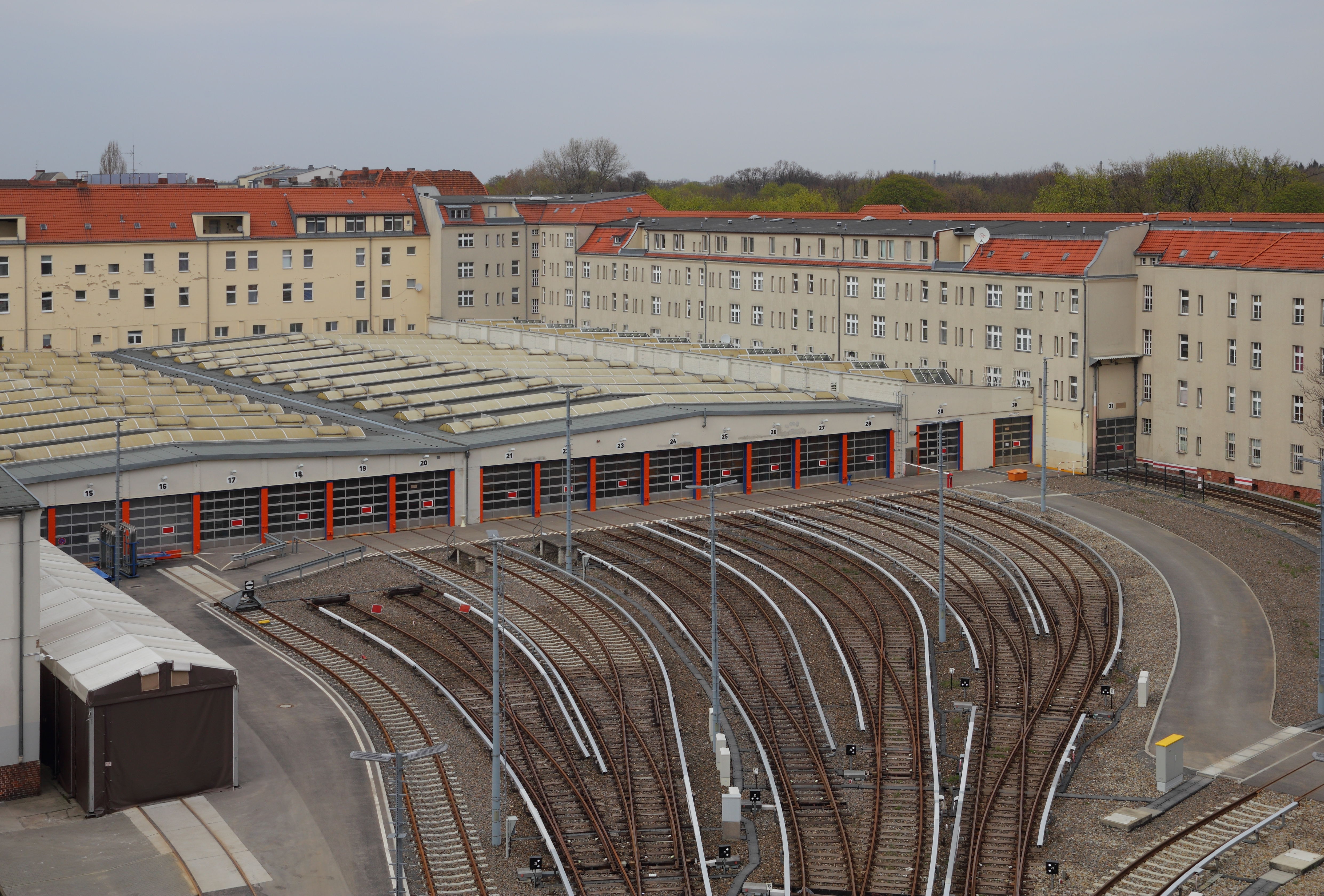 Berlin-Wedding, subway depot of U6 at Müllerstrasse.